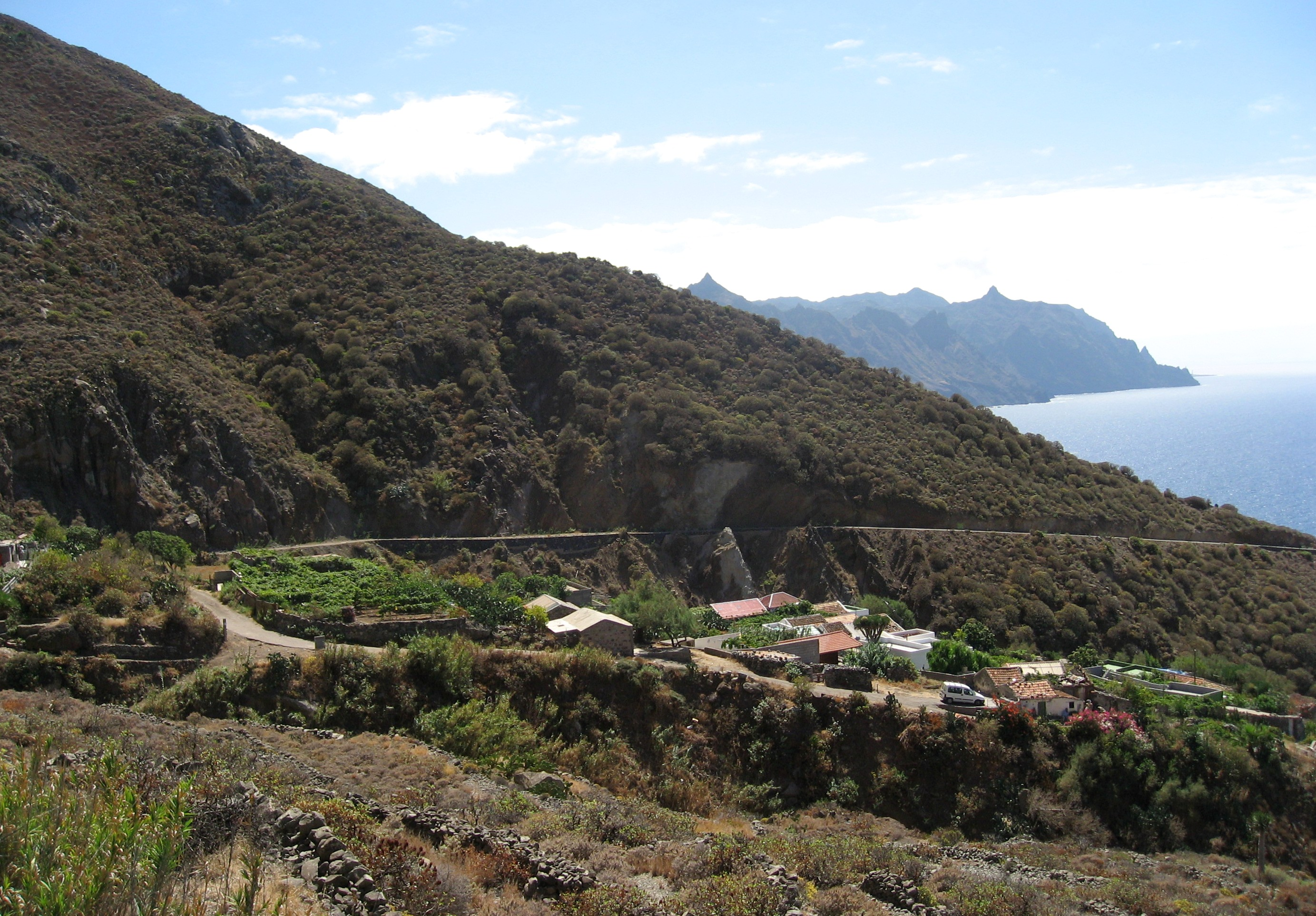 El Draguillo. Tenerife, Canary Islands